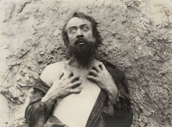 In the title role for the silent drama The Beggar of Cawnpore (1916), the actor H. B. Warner poses in character as Dr. Robert Lowndes, a British army doctor in India reduced to wild eyed beggary by morphine addiction.